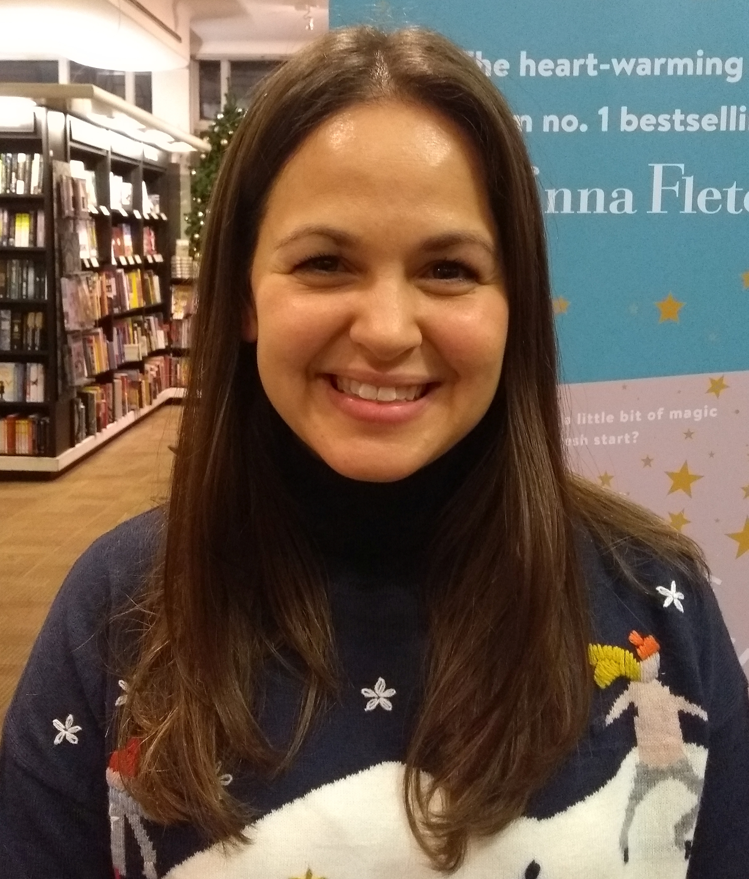 Giovanna Fletcher, 20171207